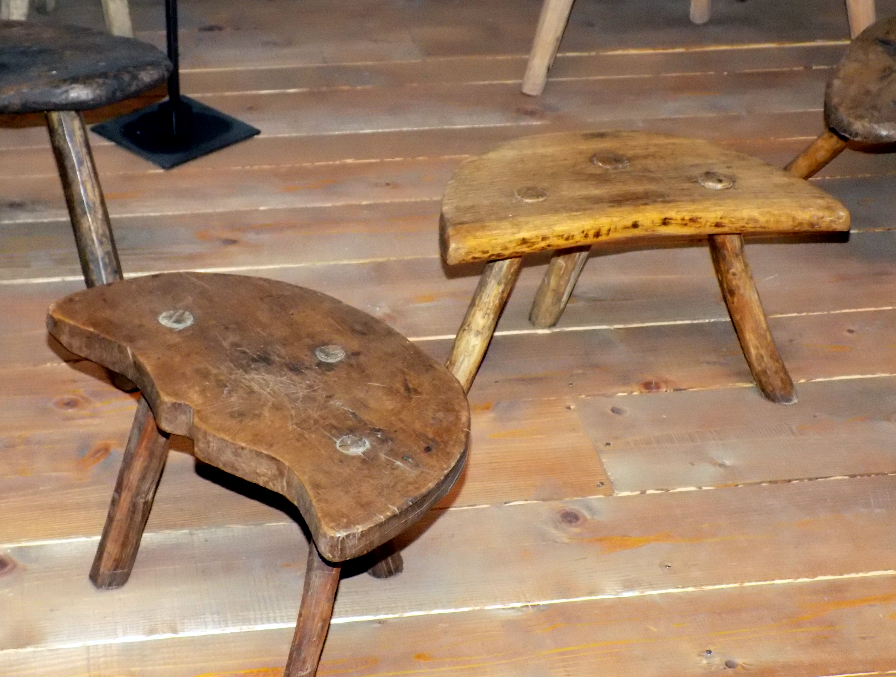 Traditional Three-legged chair, Museum of Pedagogy in Belgrade, Serbia